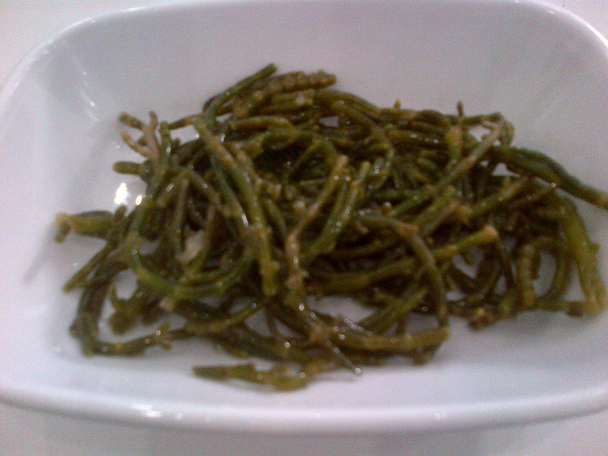 A small portion of "Deniz börülcesi salatası" (Glasswort salad) served on the house at a seafood restaurant in Ankara, as amuse-bouche.